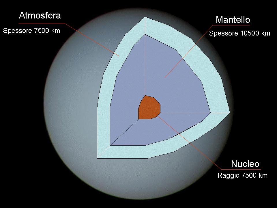 Inside of Urano